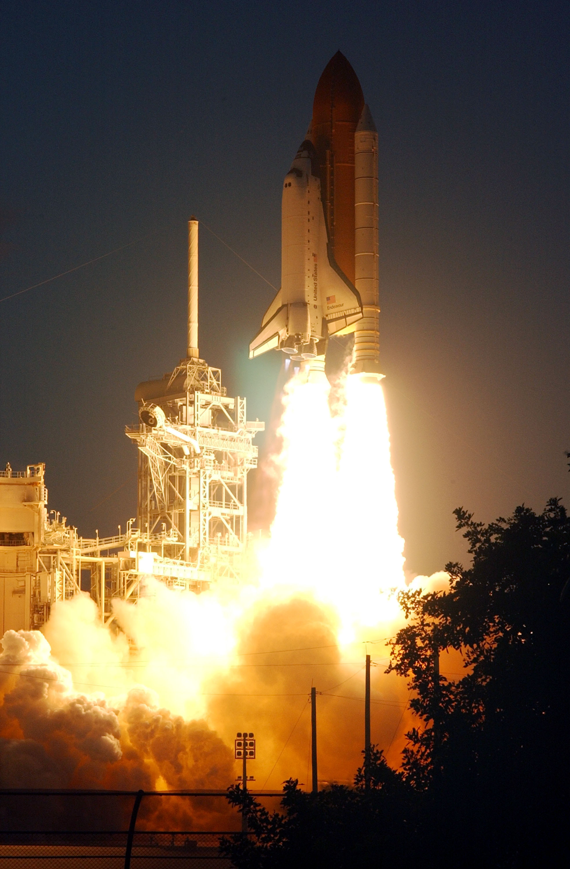 Spewing flames and smoke, Space Shuttle Endeavour hurtles into the twilight sky on mission STS-108. The second attempt in two days, liftoff occurred at 5:19:28 p.m. EST (10:19.28 GMT). Endeavour will dock with the International Space Station on Dec. 7. STS-108 is the final Shuttle mission of 2001 and the 107th Shuttle flight overall. It is the 12th flight to the Space Station. Landing of the orbiter at KSC's Shuttle Landing Facility is targeted for 1:05 p.m. EST (6:05 p.m. GMT) Dec. 16.